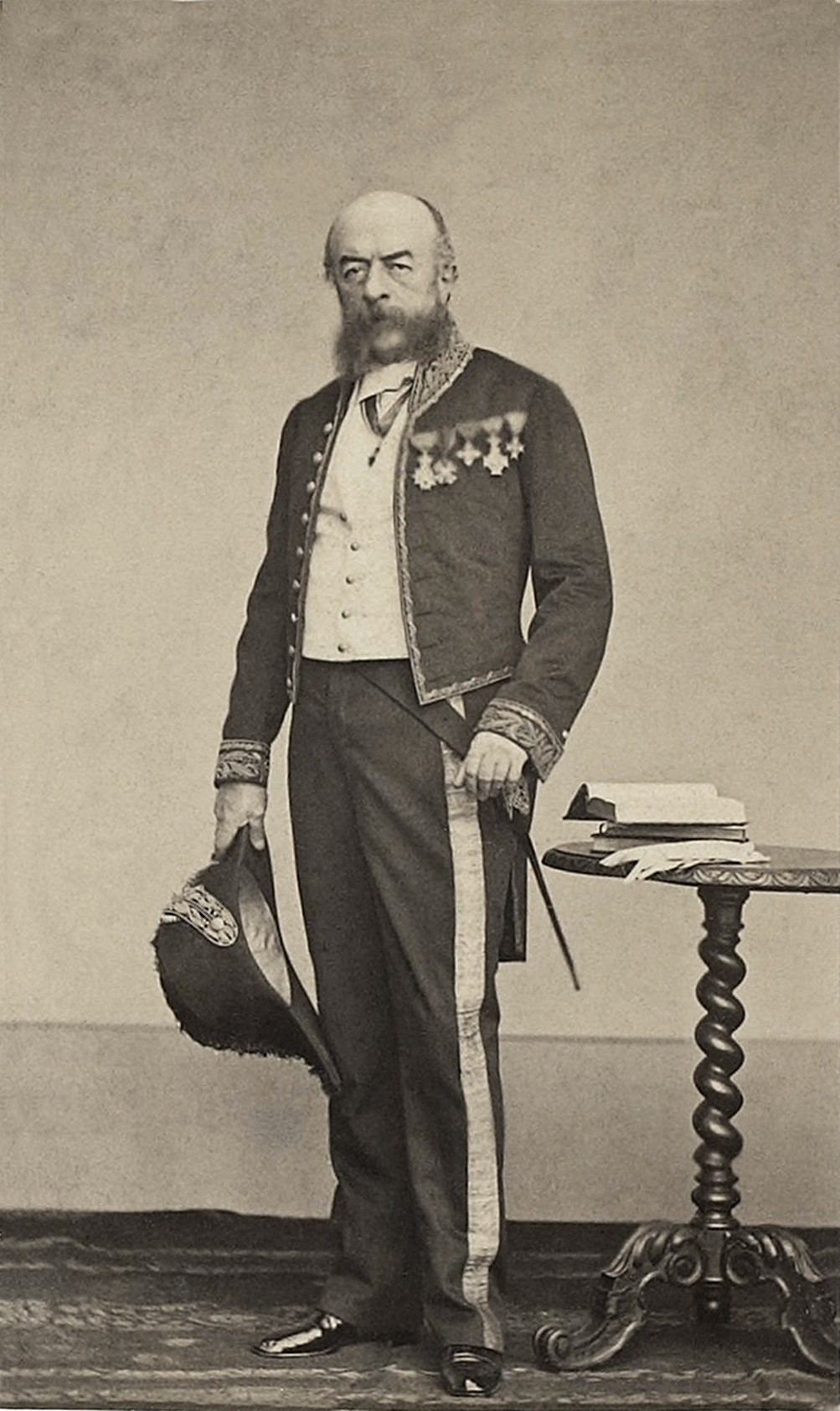 Horace de Viel-Castel (1802 - 1864), curator of the Louvre museum, and fierce memoir of the french Second Empire.